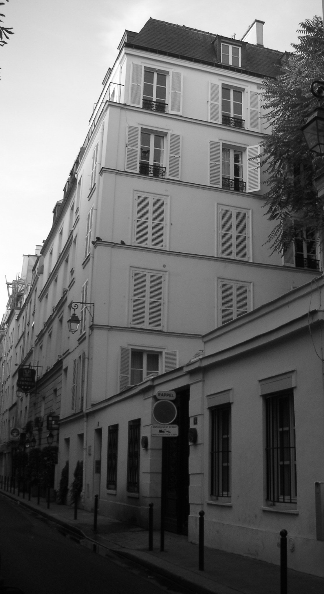 1950's residence of Robert Schuman. Paris.